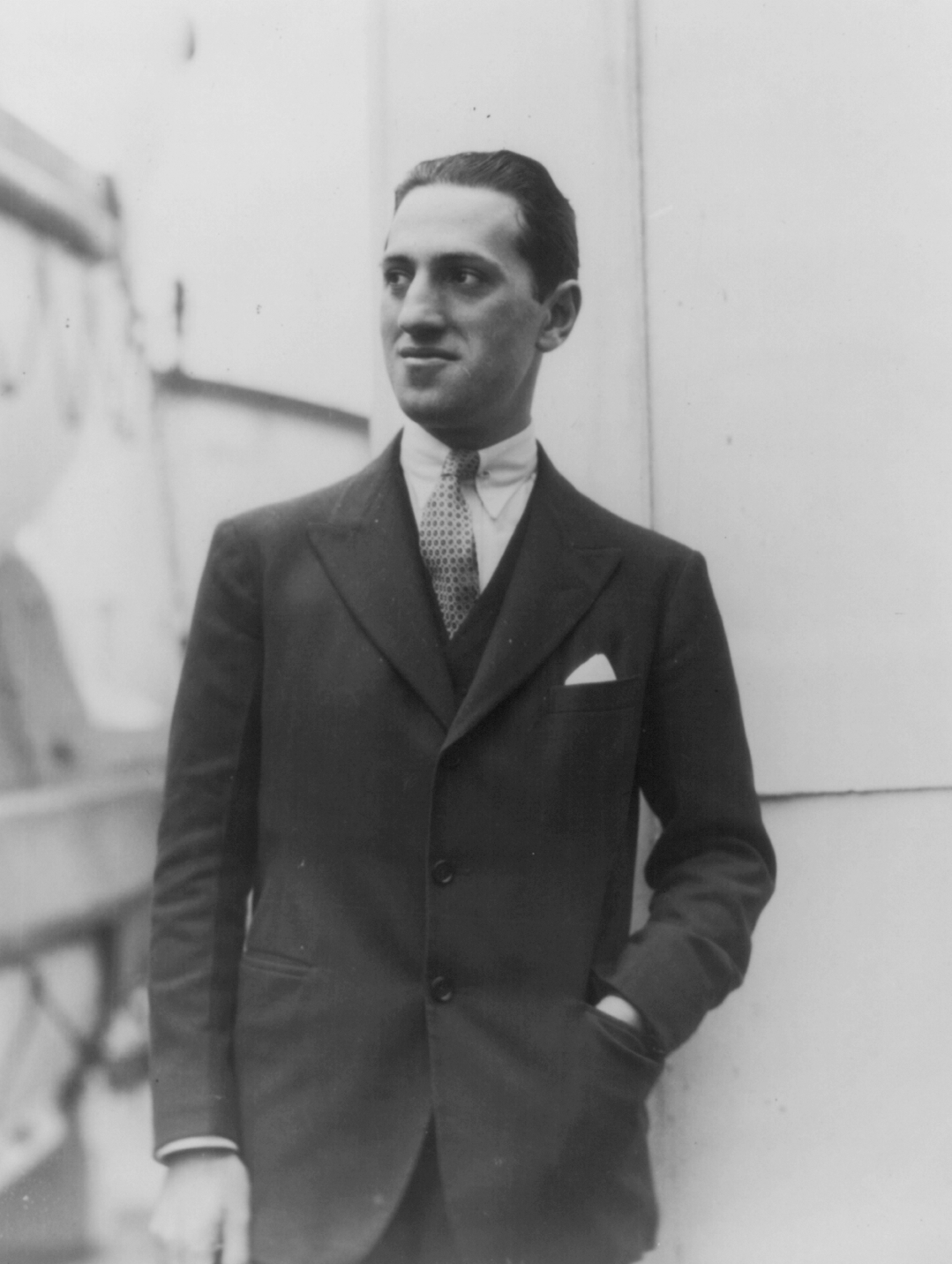 George Gershwin, half-length portrait, standing, facing left